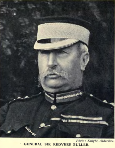 Sir Redvers Buller, British general